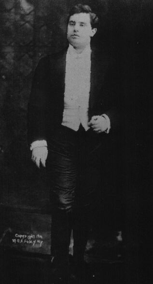 Publicity photograph John McCormack in his New York (Manhattan) debut as Alfredo in La Traviata on November 10th or 7th, 1909. Published in US.